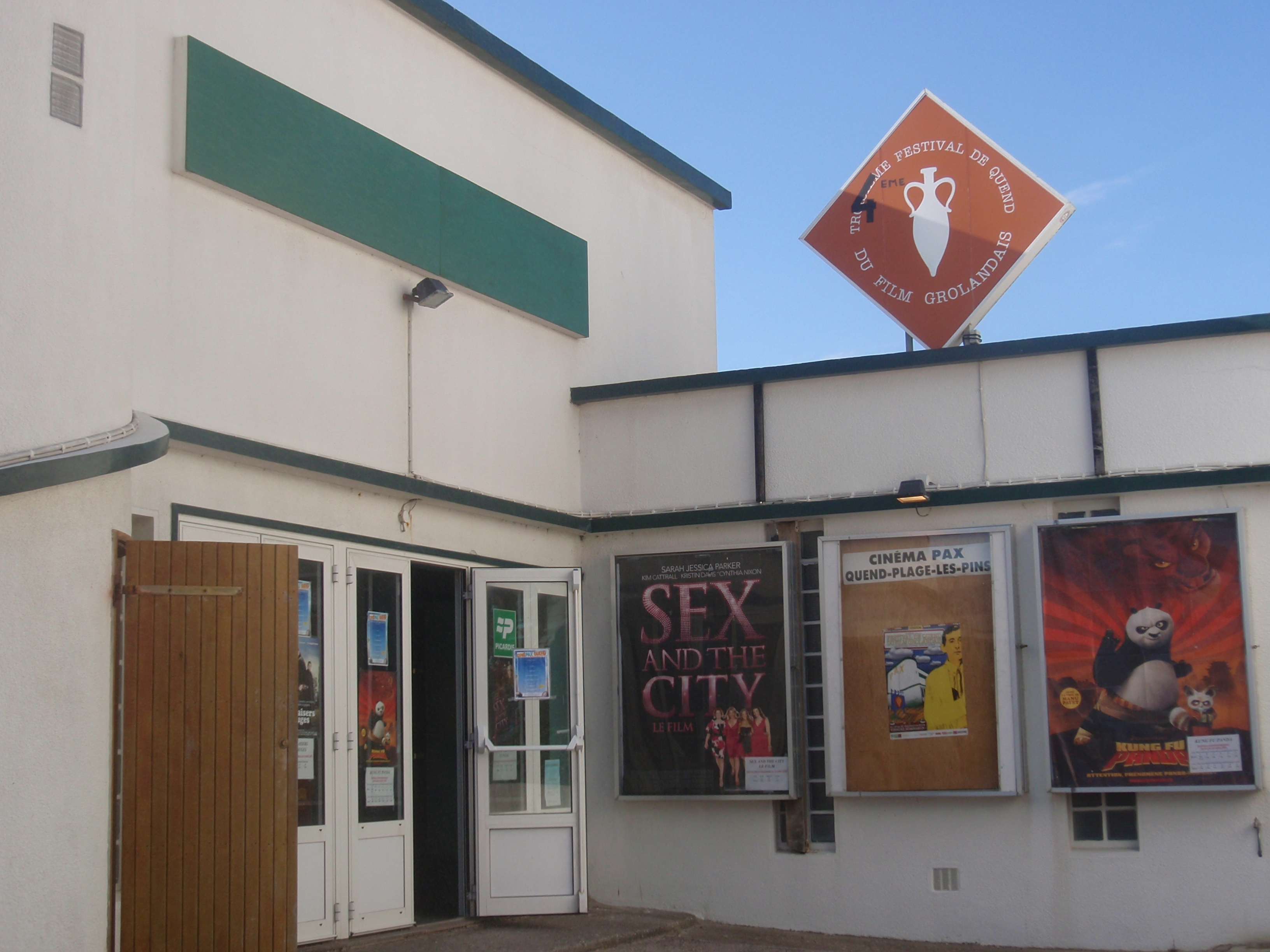 Cinema in Quend-Plage where happends the groland film festival